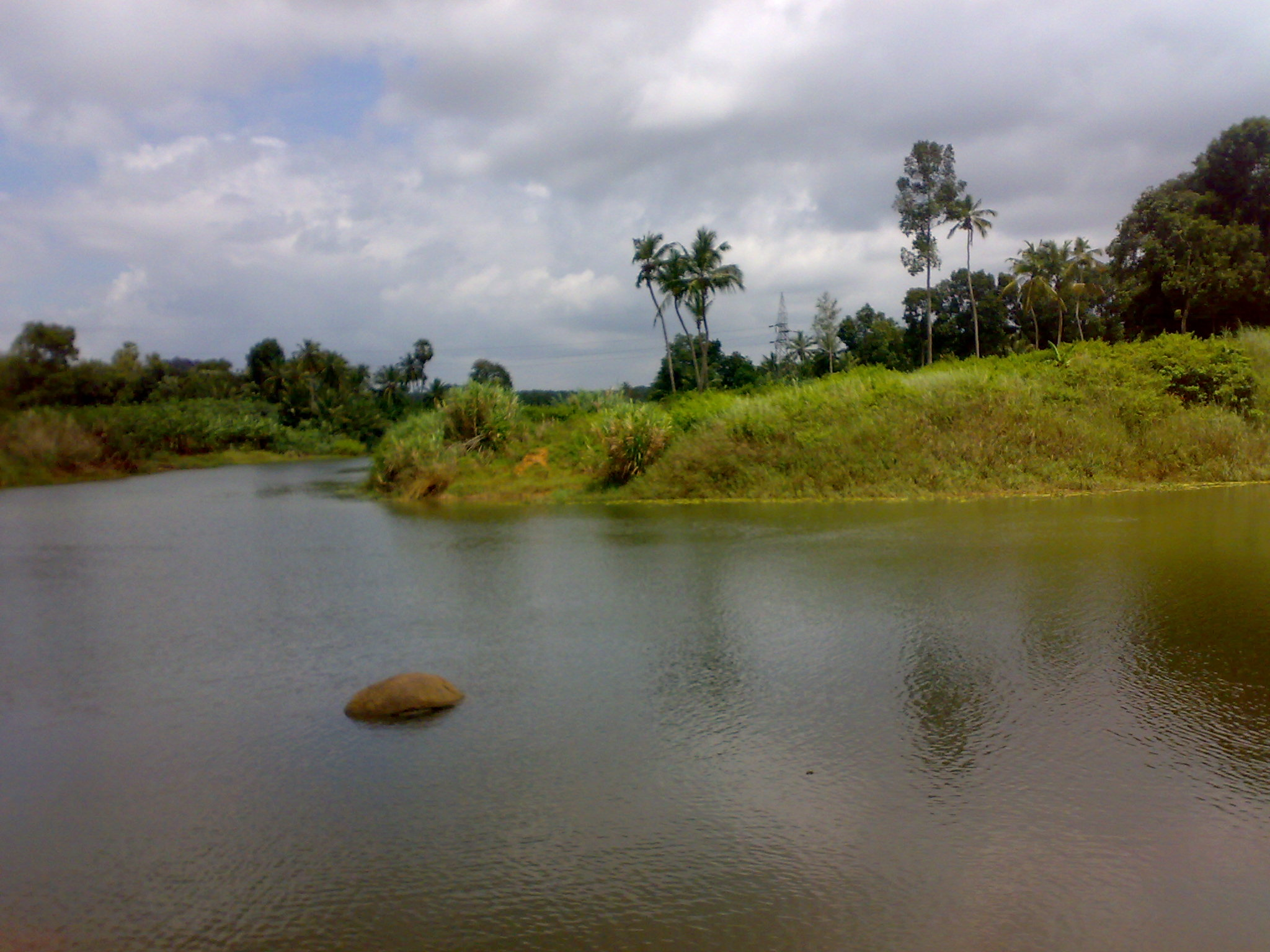 Madichel river , Thamaraparani,in village of Kanyakumari dist,Tamil nadu,India